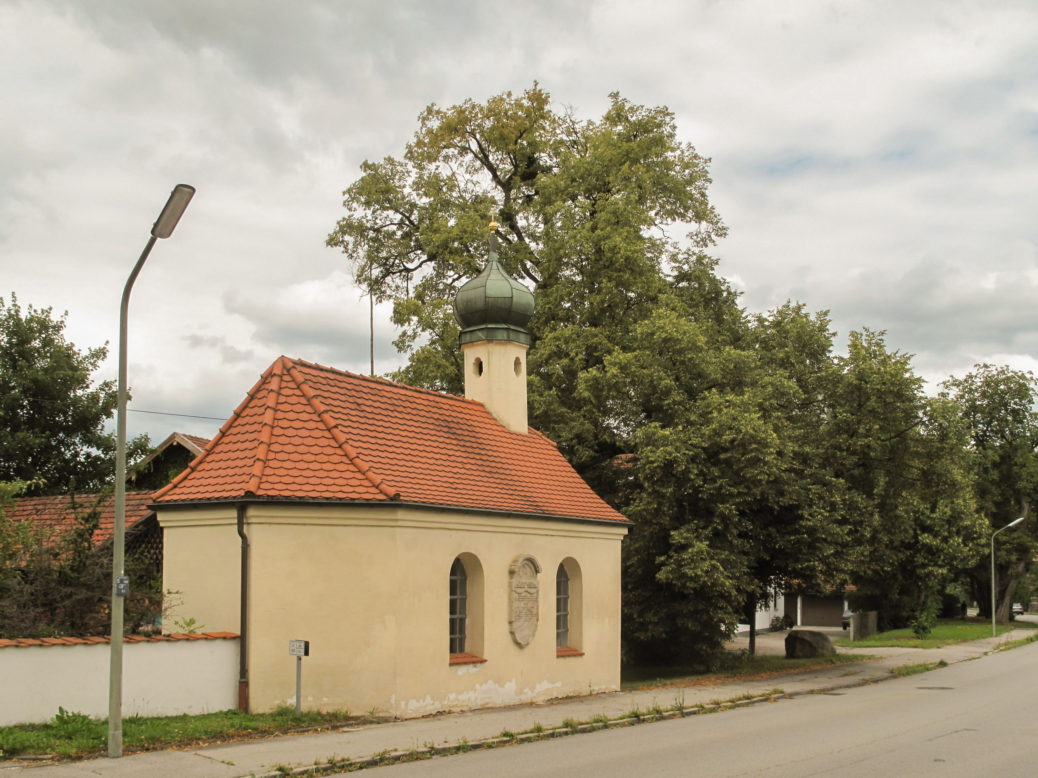 Dürrnhaar, chapel